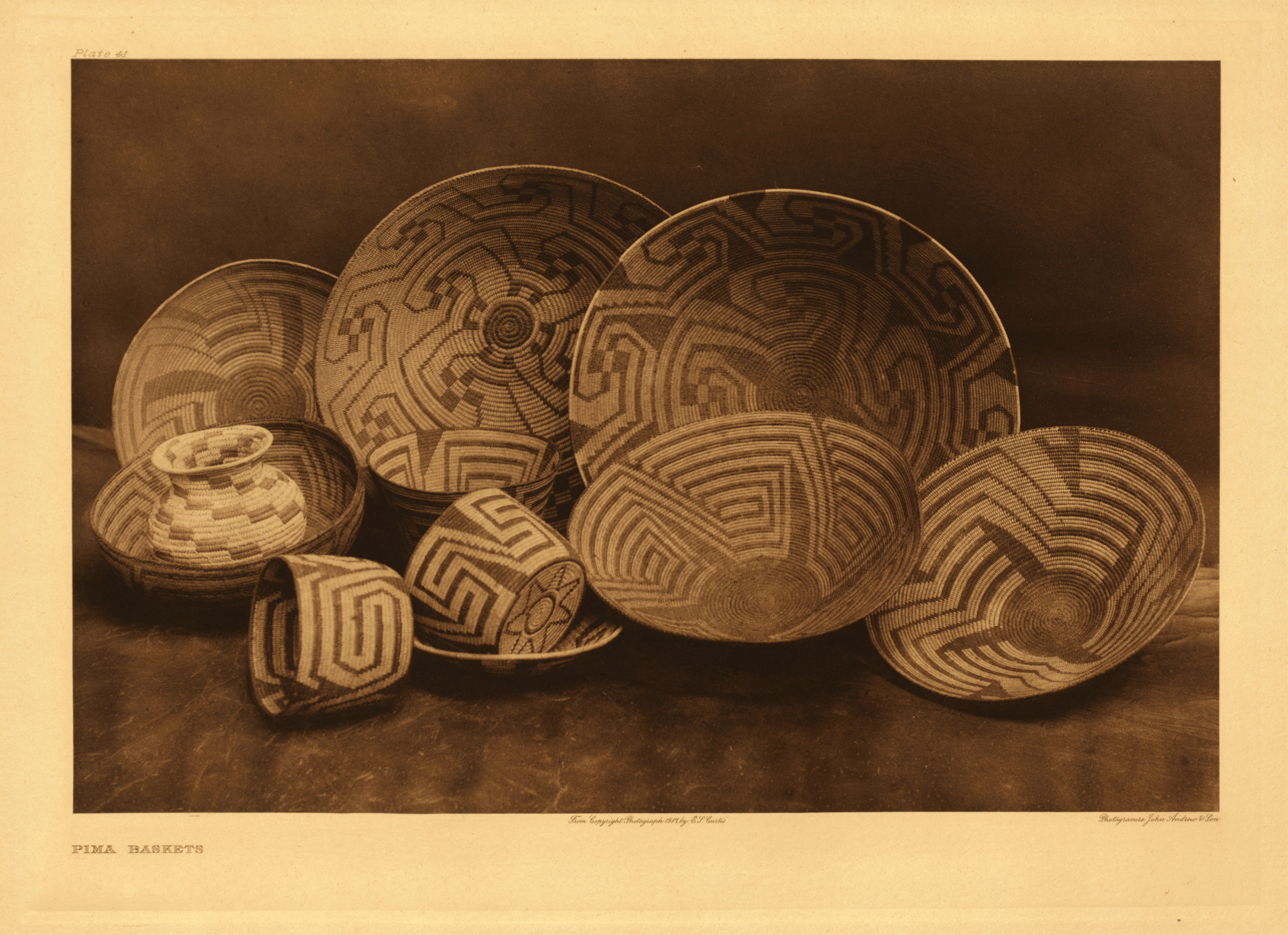 Pima baskets. Original description from LOC (boldface preserved): Pima baskets (The North American Indian; v.02) CREATOR Curtis, Edward S., 1868-1952. SUMMARY Description by Edward S. Curtis: The baskets made by the Pima, Papago, and Qahatika, as well as by their Maricopa neighbors, are practically identical in form and design, but the Maricopa basketry is of somewhat superior workmanship. The four-armed cross, a form of the swastika, appears as the central feature in the decoration of a majority of the Piman and Maricopa baskets of to-day, and while the true signification here is not known with certainty, it is not impossible that it was designed originally to represent the winds of the four cardinal directions. Less than a generation ago the swastika was employed by the Pima to decorate their shields, and as a brand for their horses. NOTES 1 photogravure : brown ink ; 31 x 44 cm. Original photogravure produced in Boston by John Andrew & Son, c1907. Original source: The Pima. The Papago. The Qahatika. The Mohave. The Yuma. The Maricopa. The Walapai. The Havasupai. The Apache-Mohave, or Yavapai [portfolio] ; plate no. 41 Seattle : E.S. Curtis, 1908. SUBJECTS Pima Indians. Baskets Swastikas New Southwest OBJECT TYPE Photomechanical print Image REPOSITORY Northwestern University. Library., Evanston, Ill.